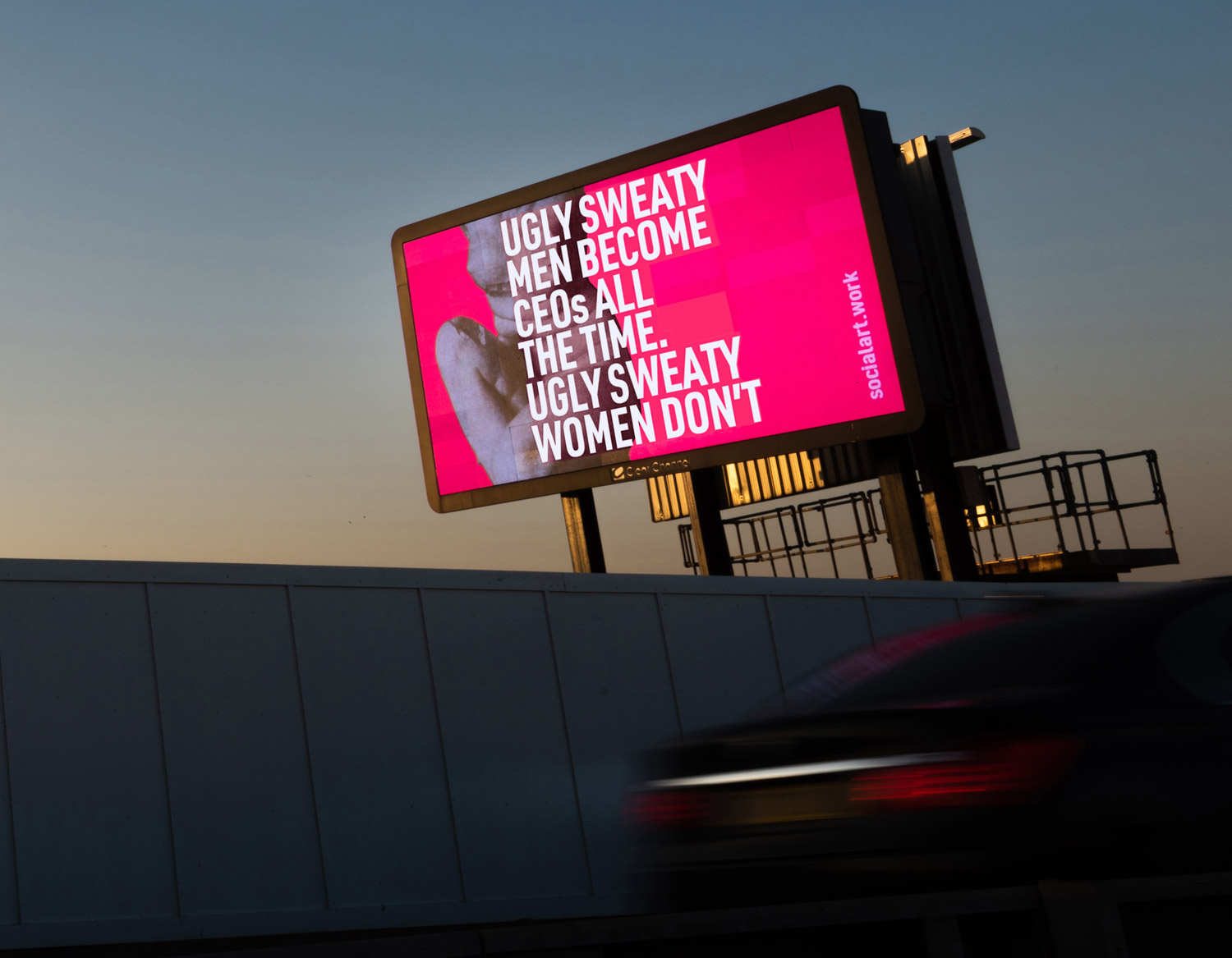 Text by public artist Martin Firrell presented on digital billboards in the UK, part of the series titled Power and Gender (2019). This text was created in conversation with Dame Inga Beale, CEO Lloyd's of London (2014-2019).